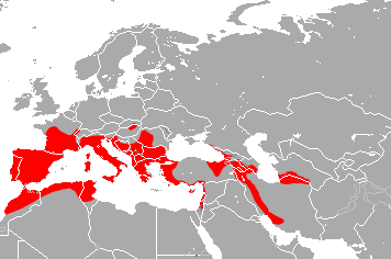 Mediterranean Horseshoe Bat (Rhinolophus euryale) range